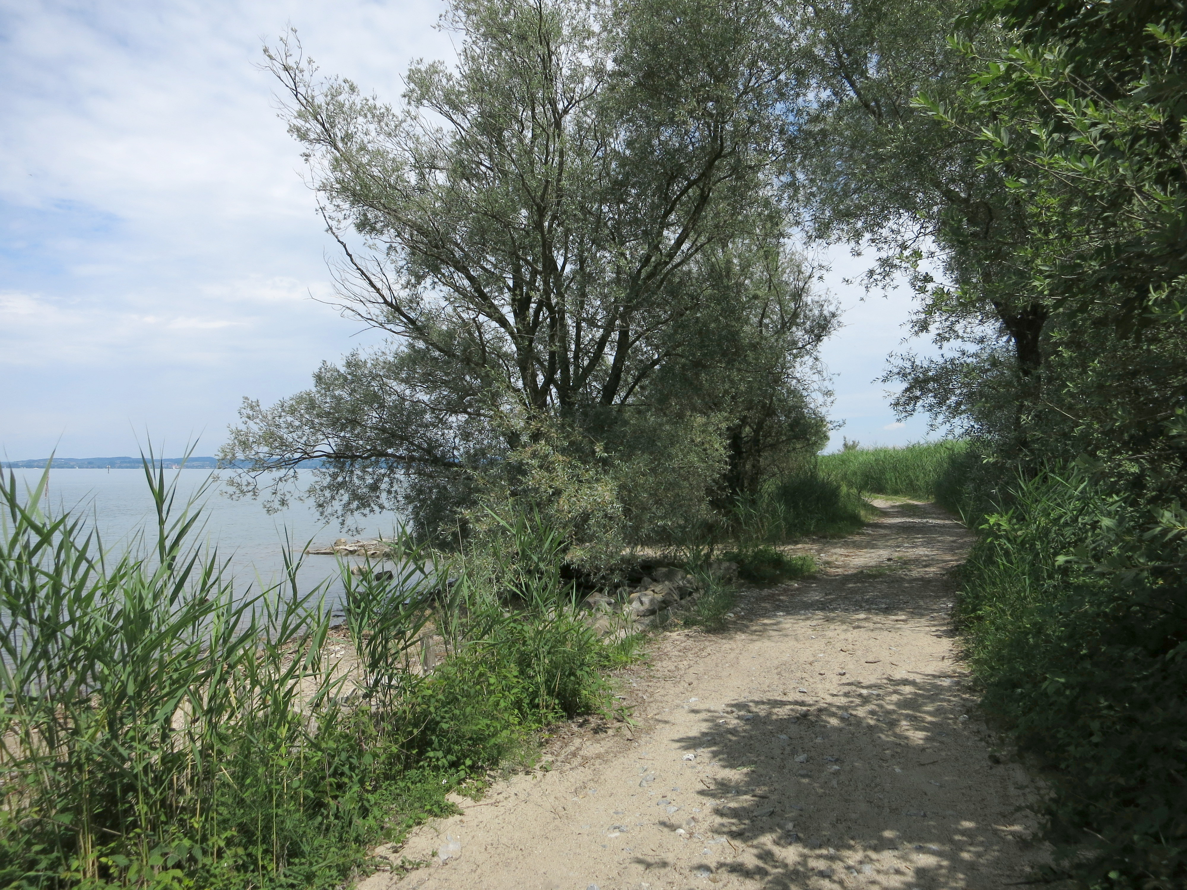 Rohrspitz, peninsula in Bodensee